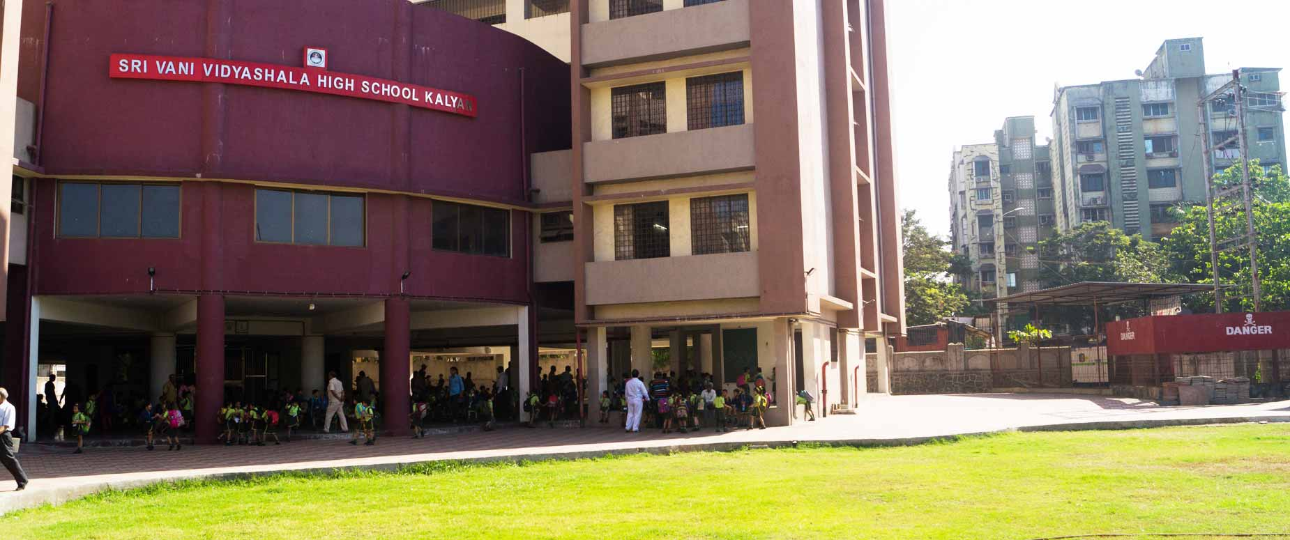 Sri Vani Vidyashala High School